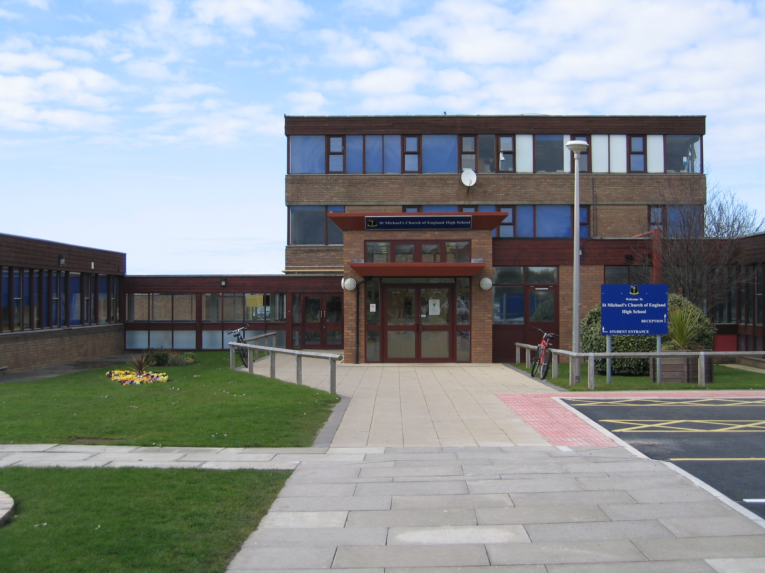 The main entrance to St. Michael's Church of England High School.